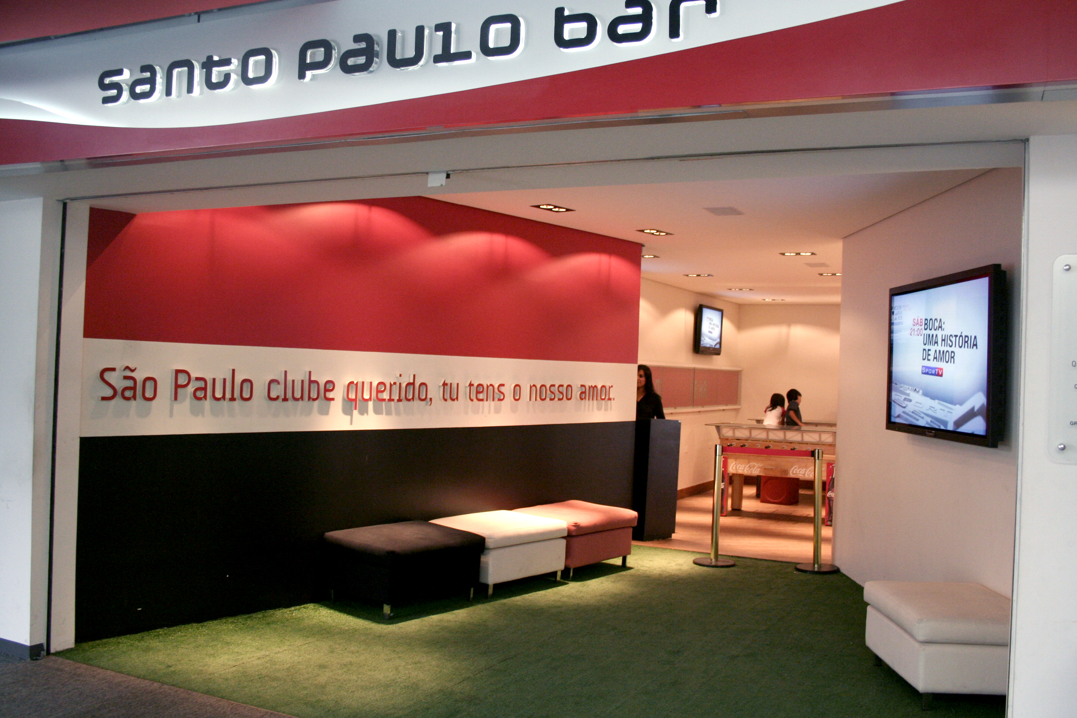 frontage photo of the Santo Paulo Bar, located in the Morumbi Concept Hall.